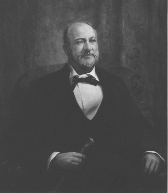 Portrait of Tennessee Governor Peter Turney (1827–1903)